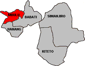 Created by Andrew Coe